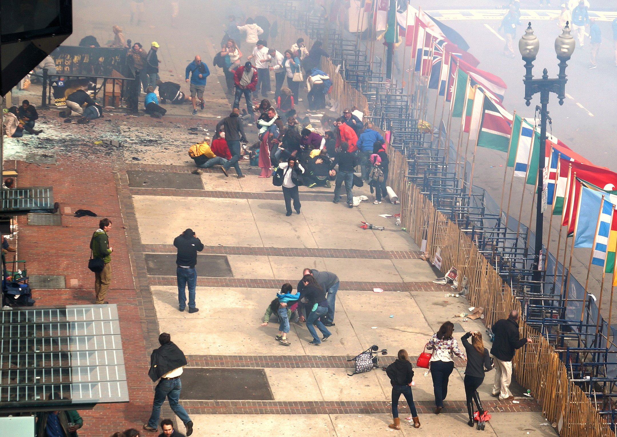 Spectators helping victims soon after the attack.